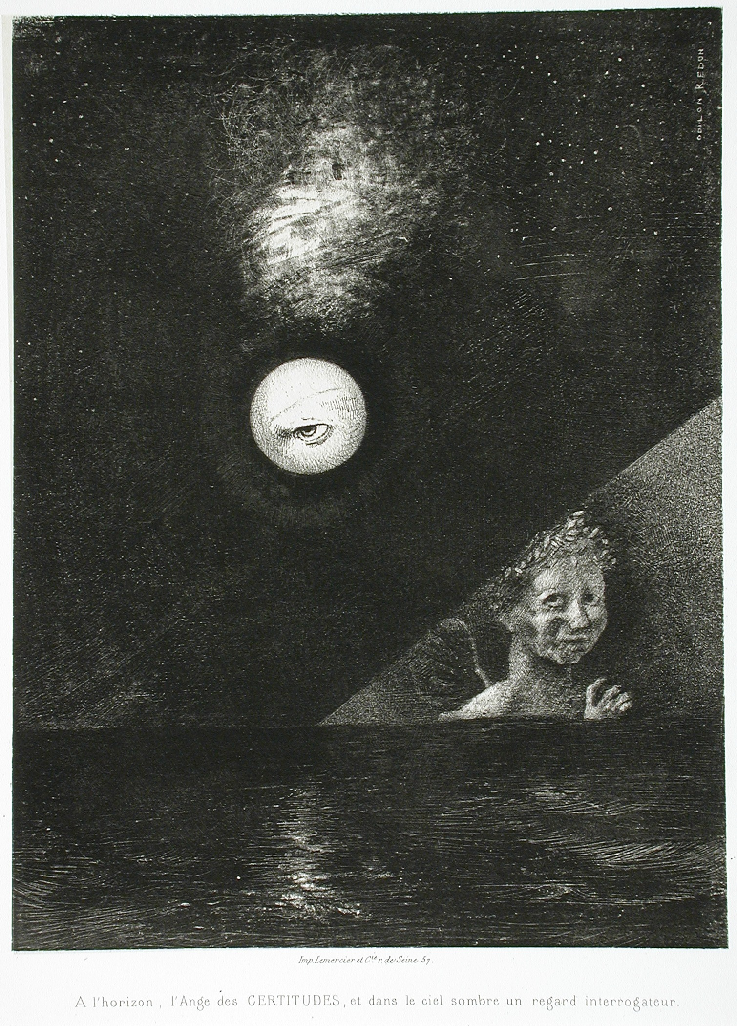 France, 1882 Series: À Edgar Poe Prints; lithographs Lithograph Wallis Foundation Fund in memory of Hal B. Wallis (AC1997.14.1.4) Prints and Drawings